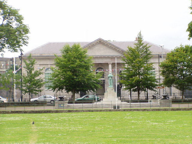 Armagh Courthouse